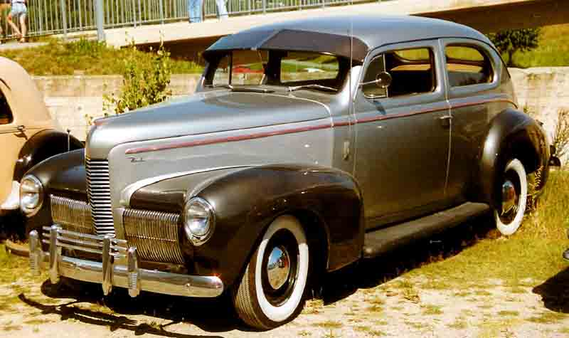 Nash LaFayette 2-Door Sedan (1940)